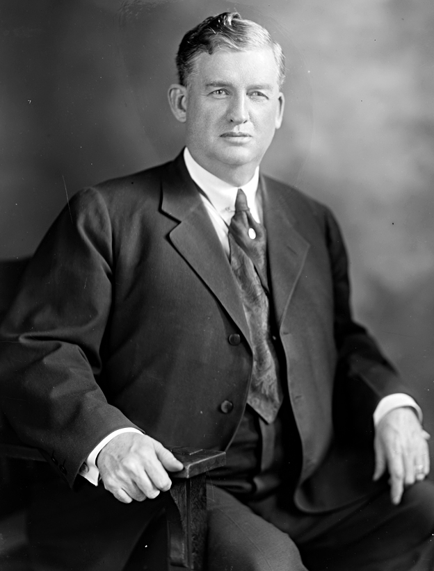 Samuel C. Major, US Representative from Missouri